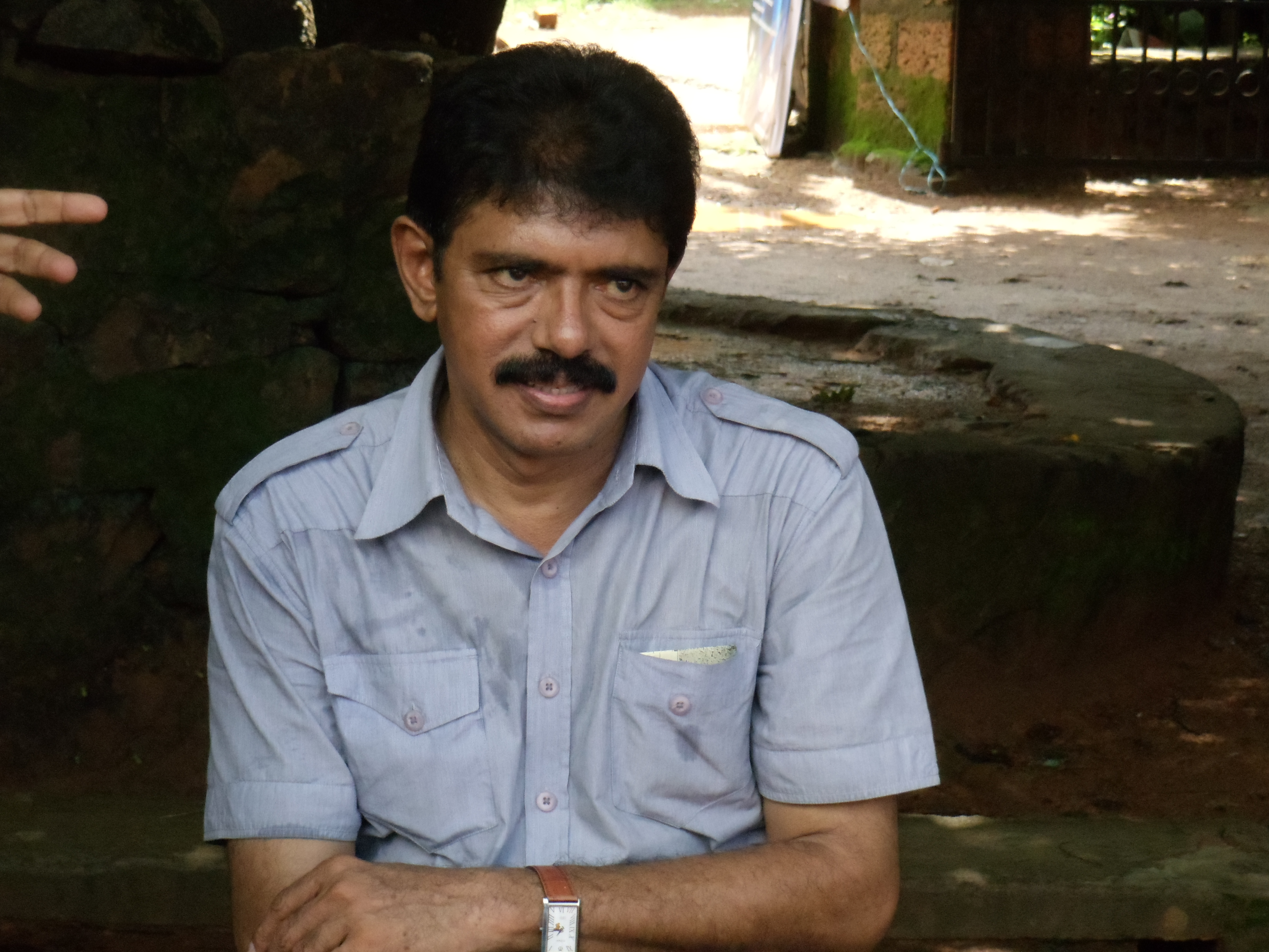 Balachandran Chullikkad , a Famous poet in Malayalam